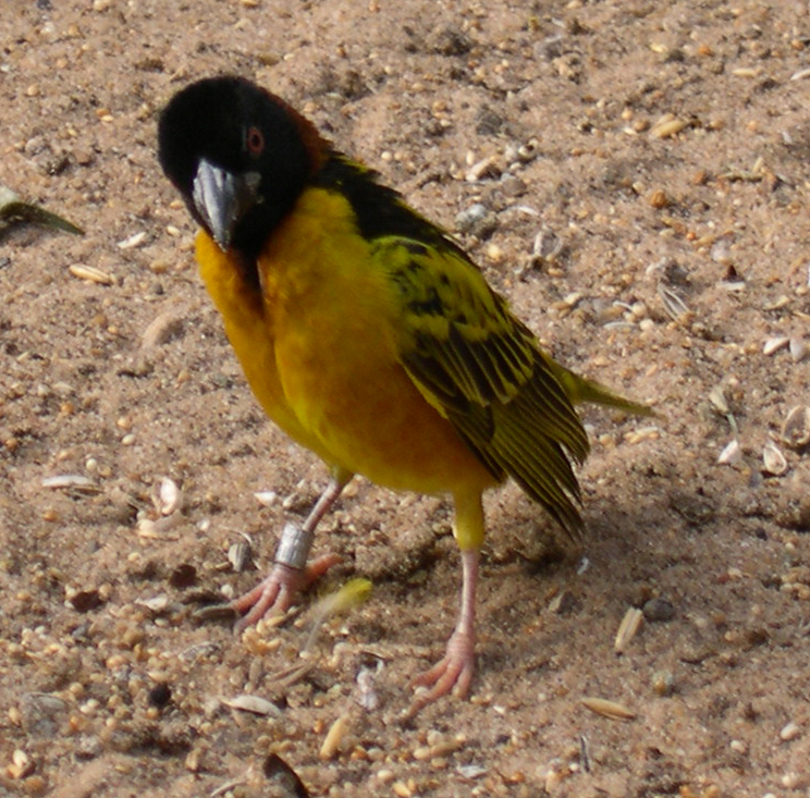 A Village Weaver Ploceus cucullatus in Avifauna, The Netherlands in 2005. Picture taken by Magalhães on November 8 2005.